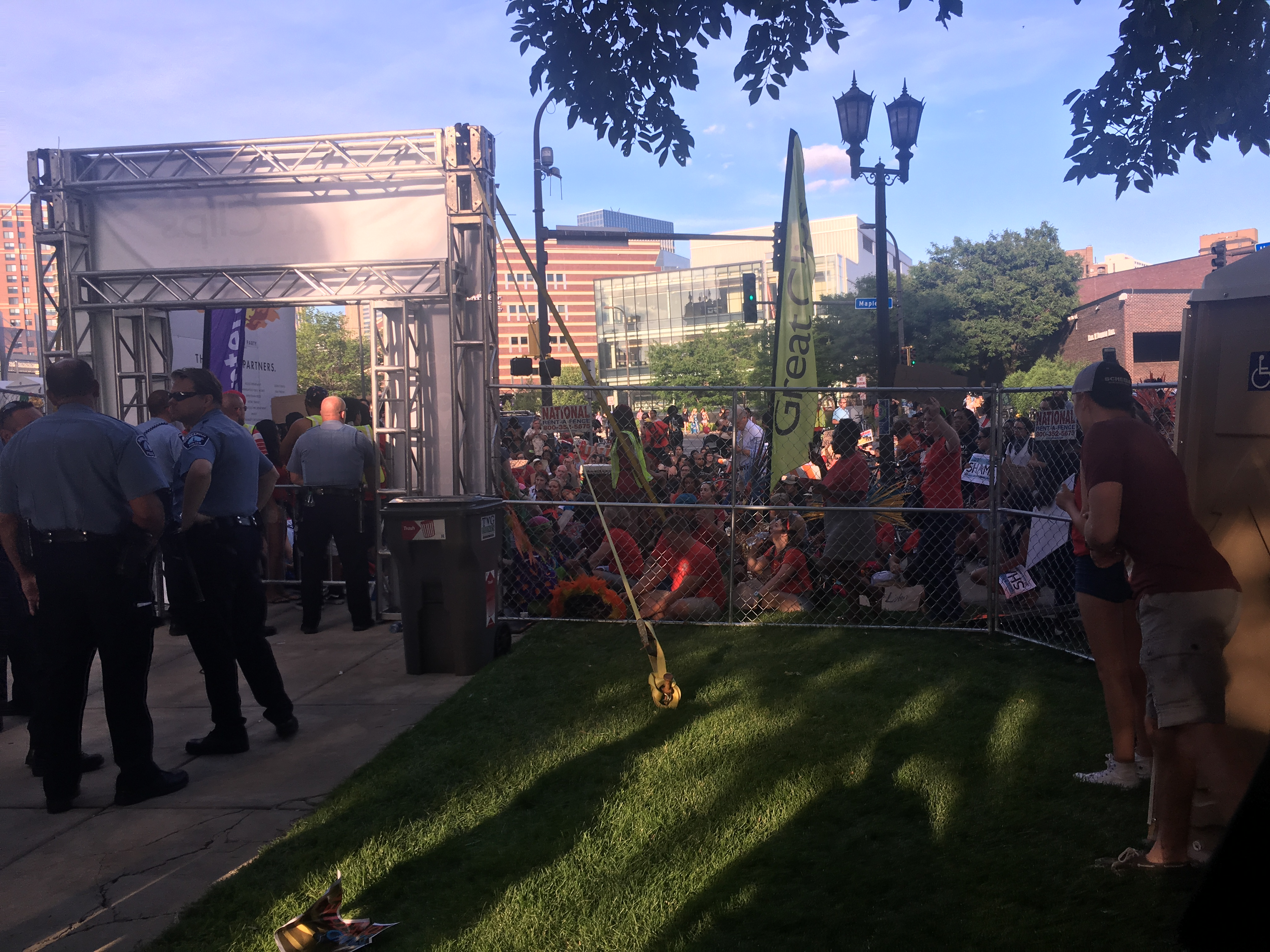 A Black Lives Matter protest outside of the 2016 Basillica Block Party